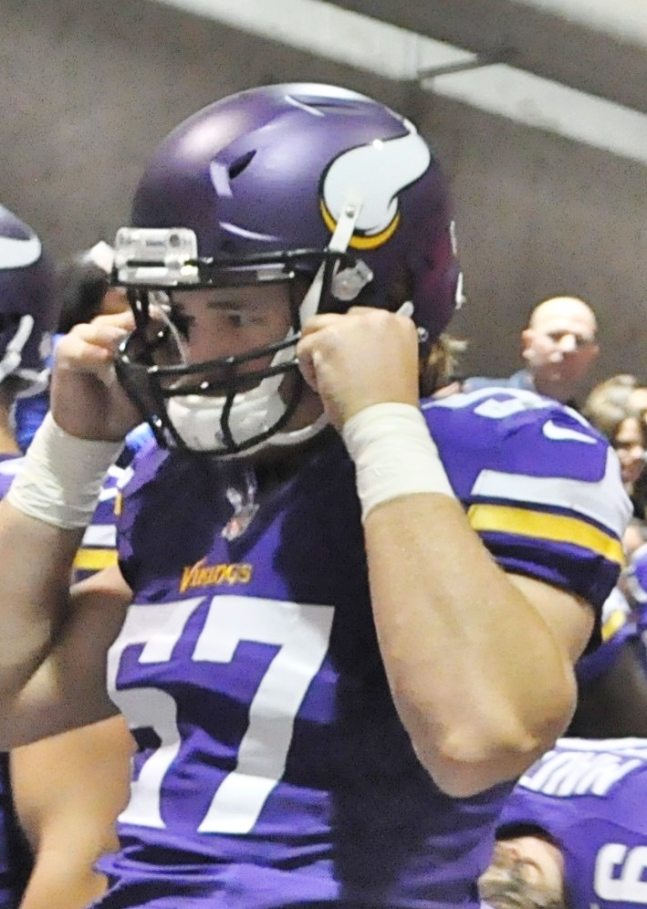 Minnesota Vikings linebacker Audie Cole before game vs Cleveland Browns